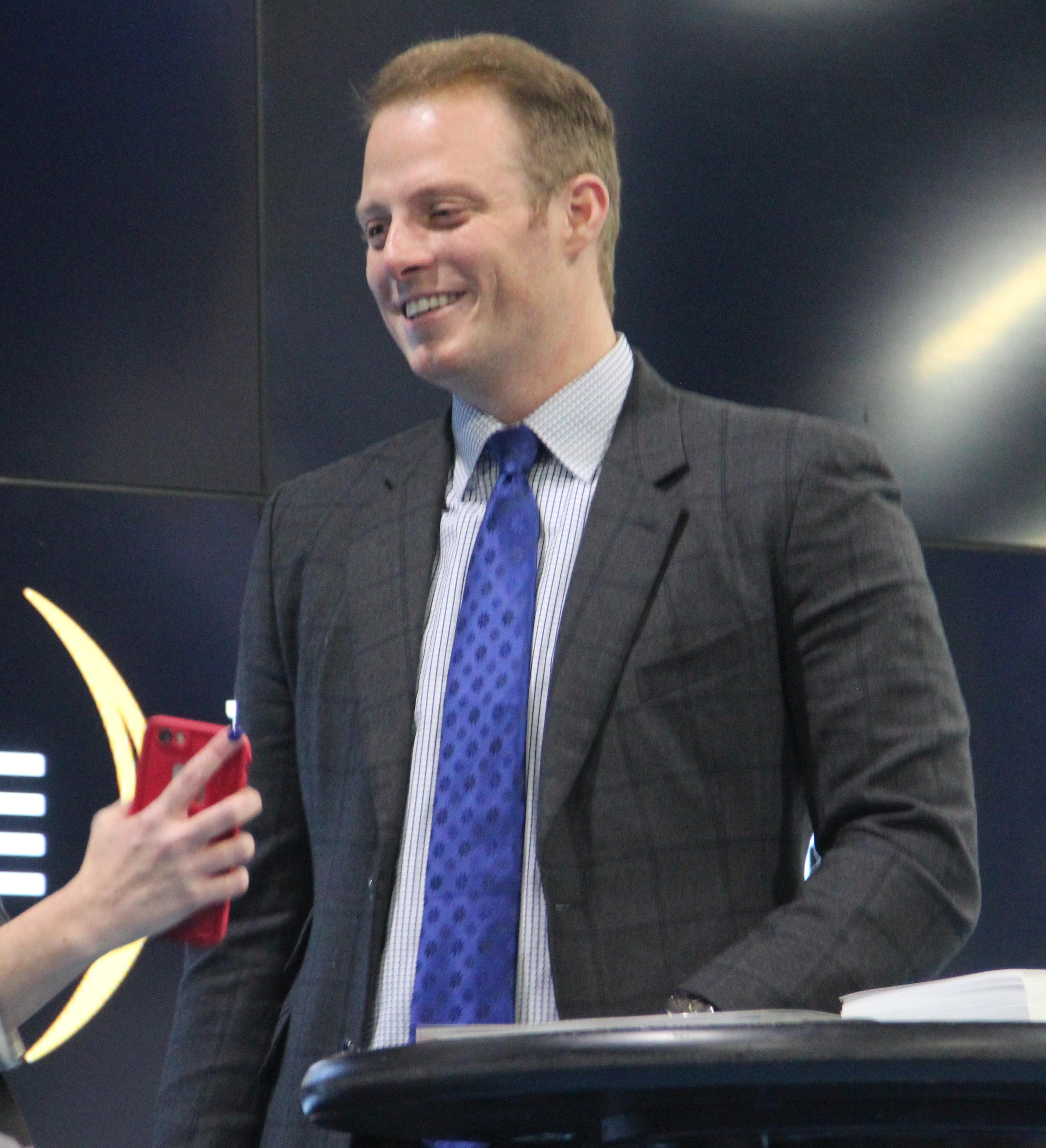 Greg McElroy at the 2018 College Football Playoff National Championship Playoff Fan Central